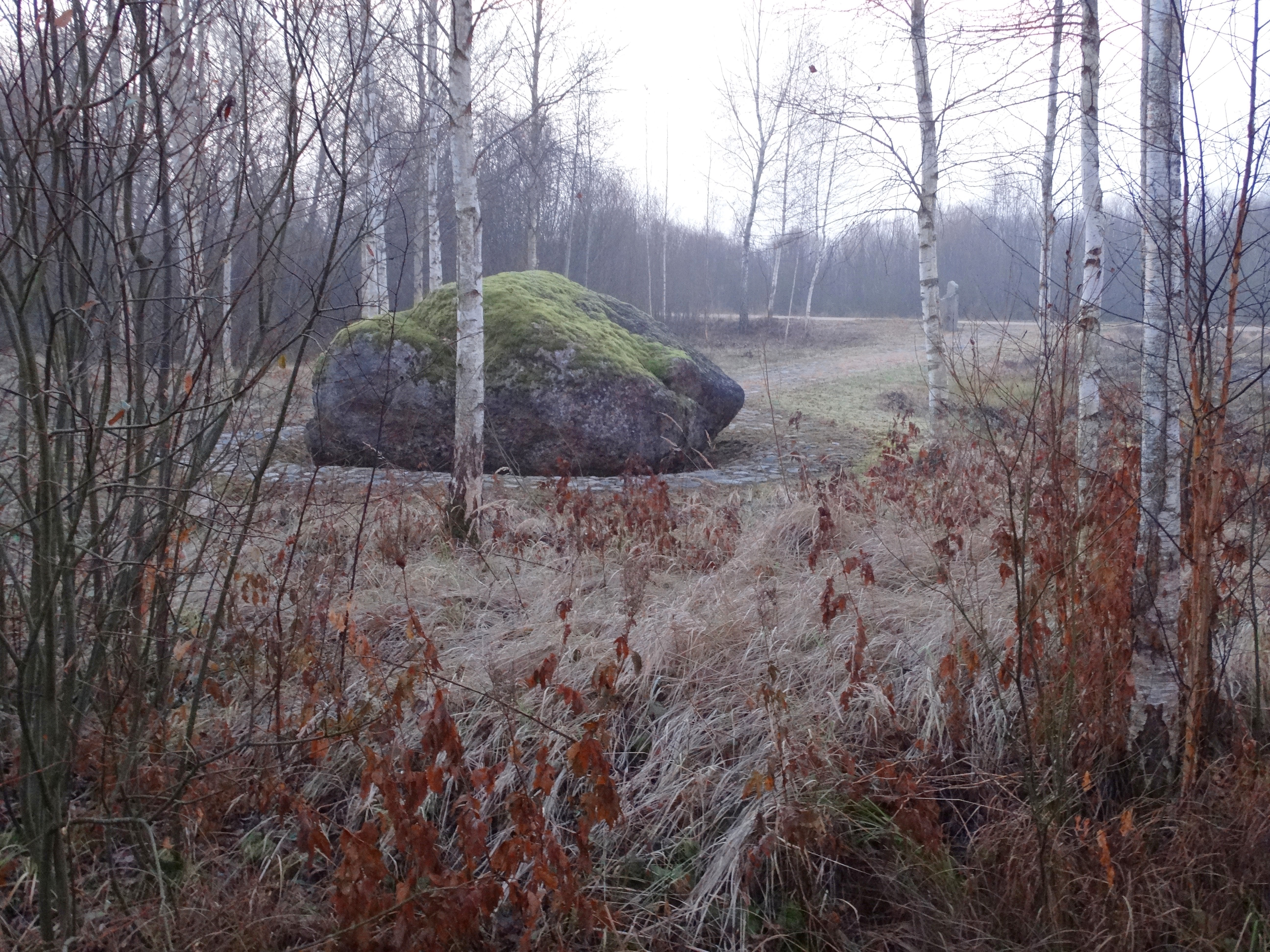 Petraičių Stone, Pasvalys District, Lithuania